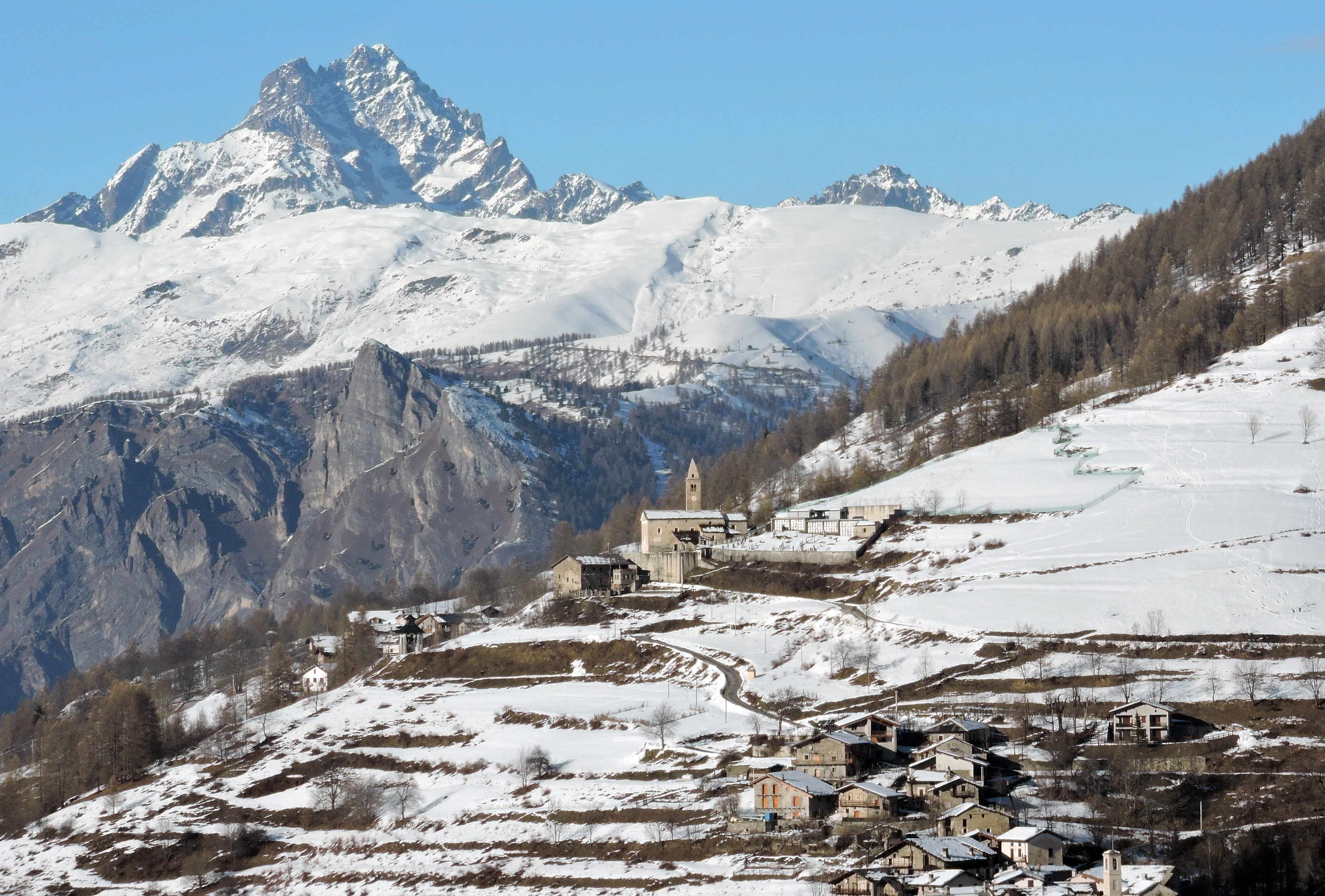 Marmora (Italy, Piedmont): panorama with church and Monviso